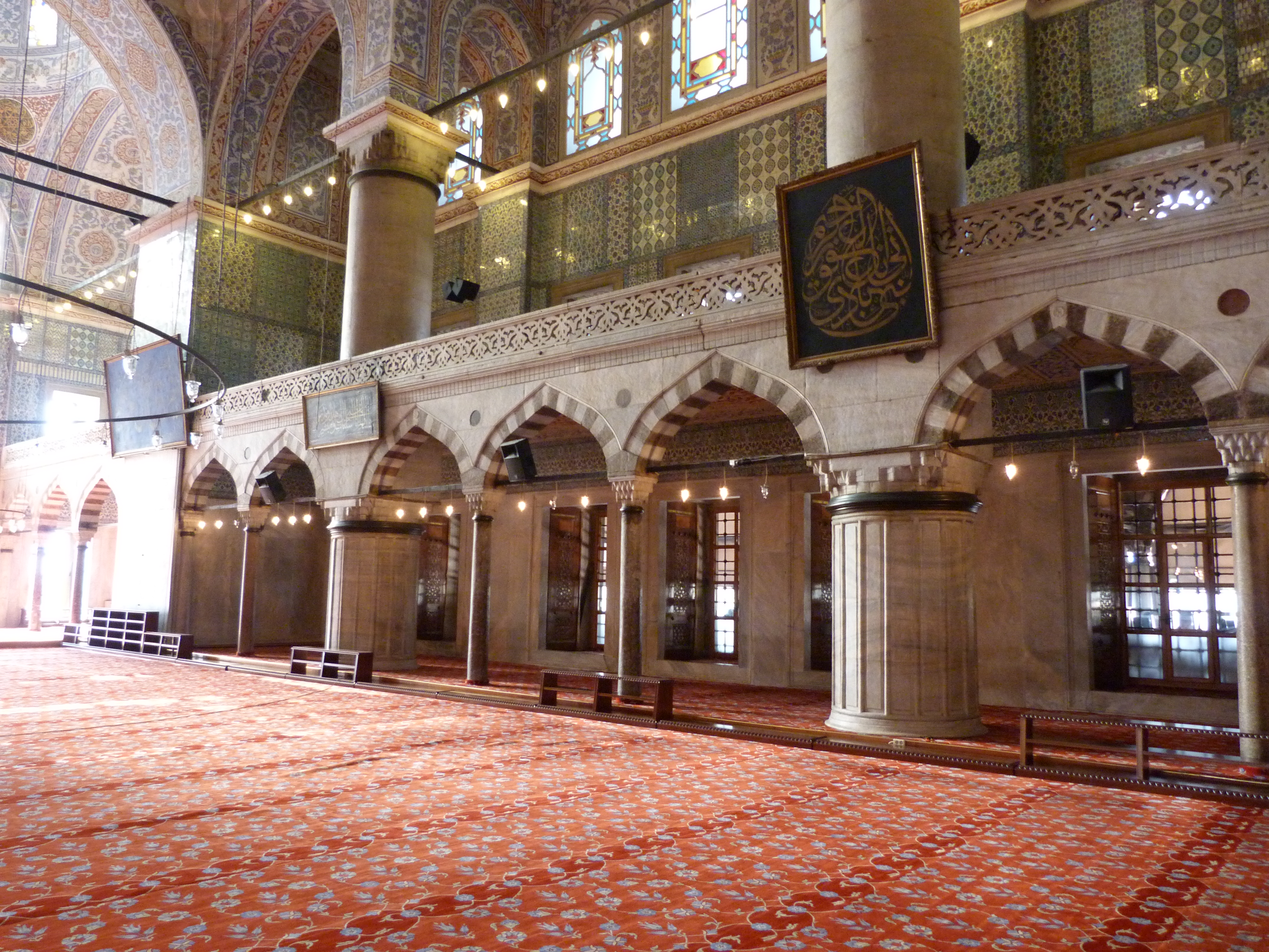 Live on the 23rd of october, 2014. Sultan Ahmed Mosque. ©© Derzsi Elekes Andor, Budapest, 2014, Published in the Metapolisz DVD line. You are authorised to use this vid under Creative Commons – even for commercial, for profit purposes. The vid must be attributed to Derzsi Elekes Andor. All of the photos and vids in the Metapolisz DVD line are under Creative Commons and can be used even for commercial – for profit – purposes. Recommended Citation Derzsi Elekes Andor: Metapolisz DVD line